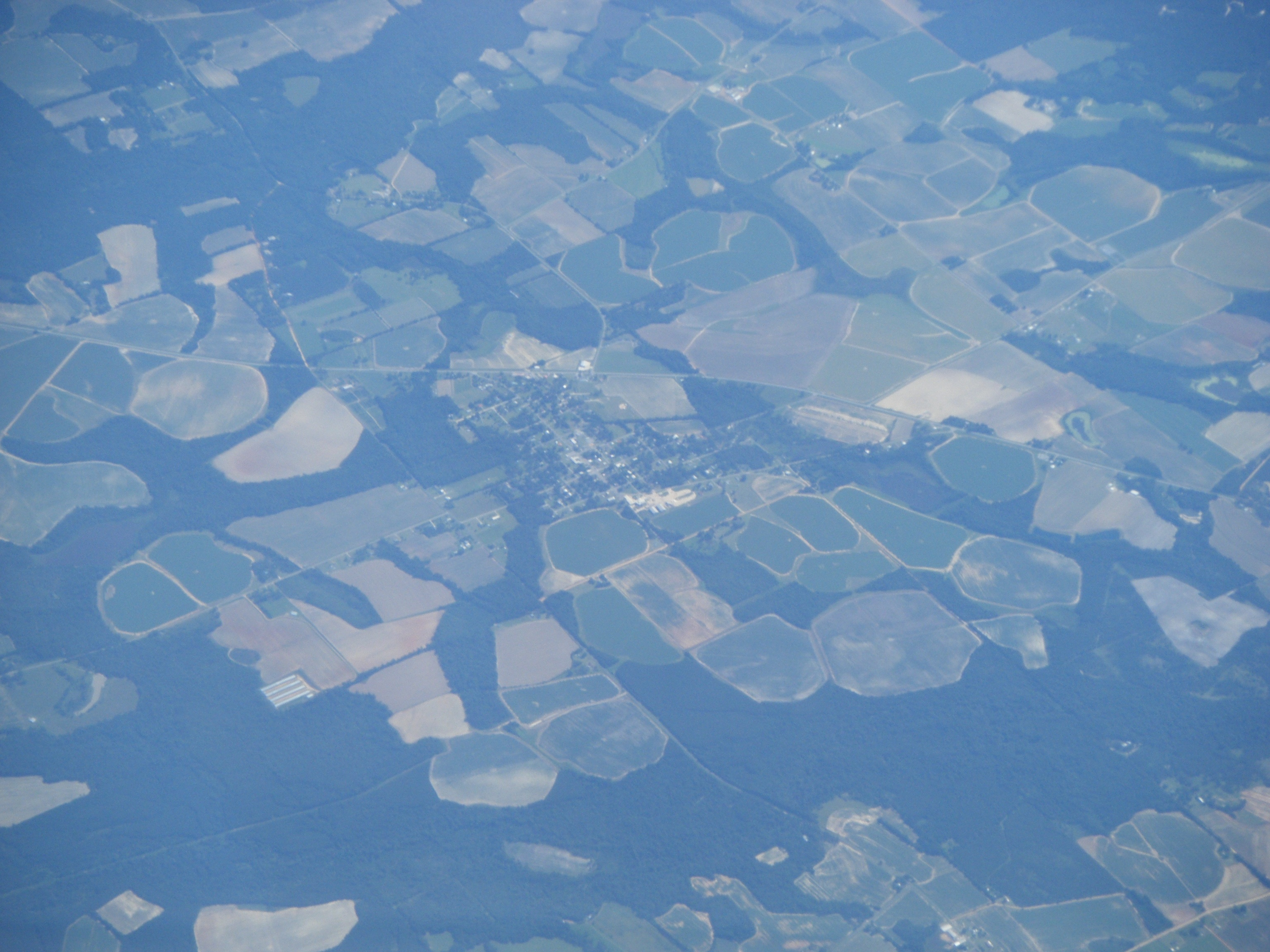 A view of Berlin, Georgia taken from an airplane